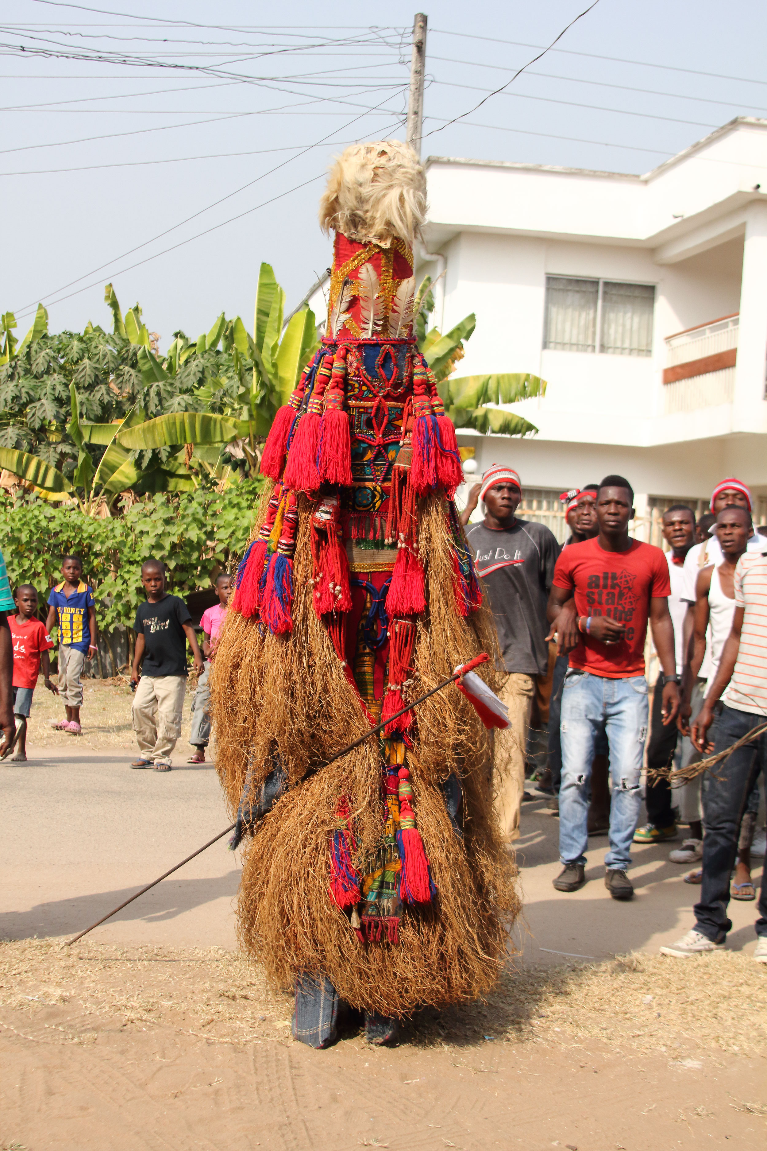 A masquerade popularly called Mmanwu. This masquerade is tall, made of rafia to add body. The masquerade can have a masked wooden face at the top, or as in this picture, just have a strong brush of hair. This is an image from Nigeria